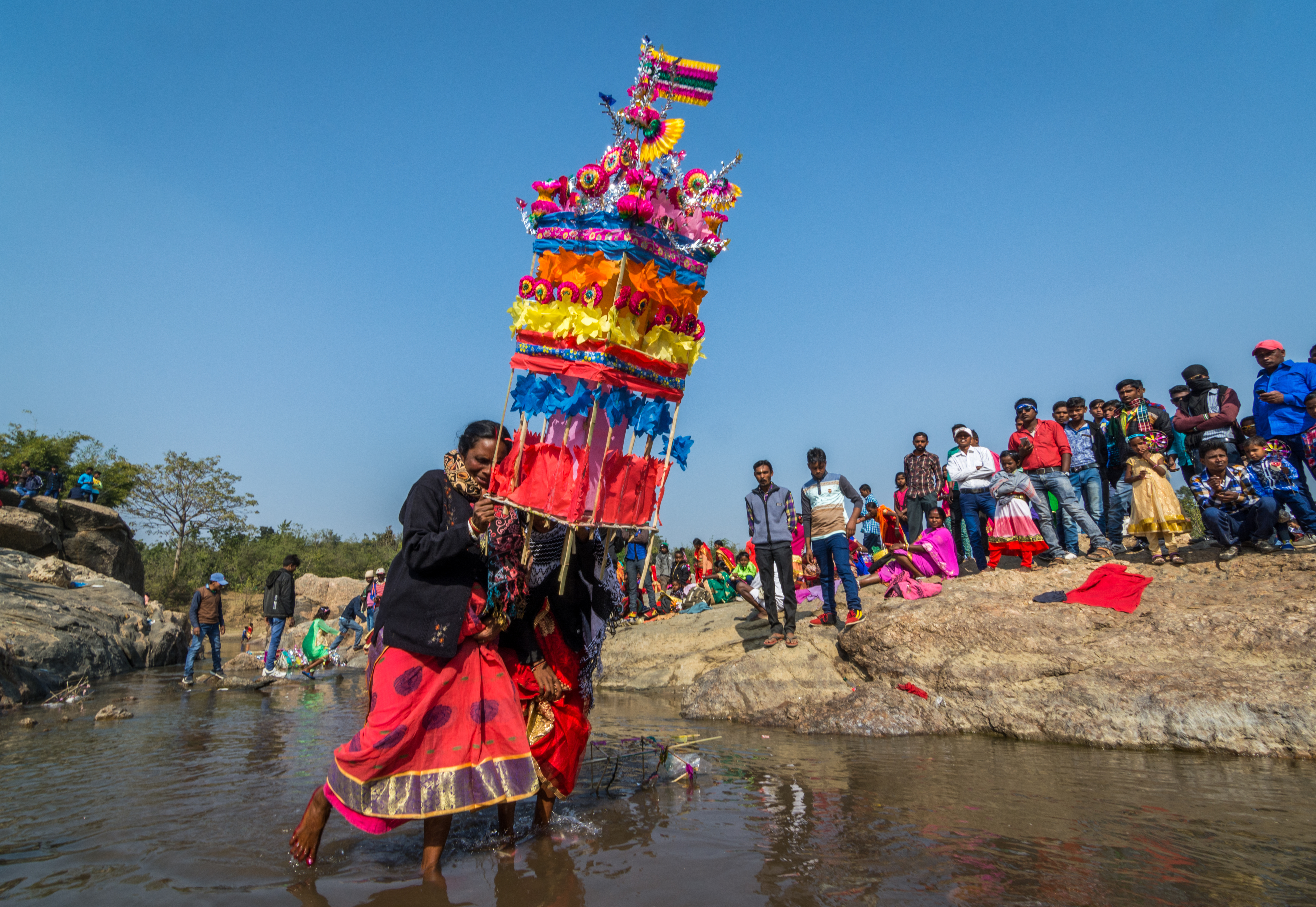 Tusu Festival of Bengal This photo has been taken in the country: India